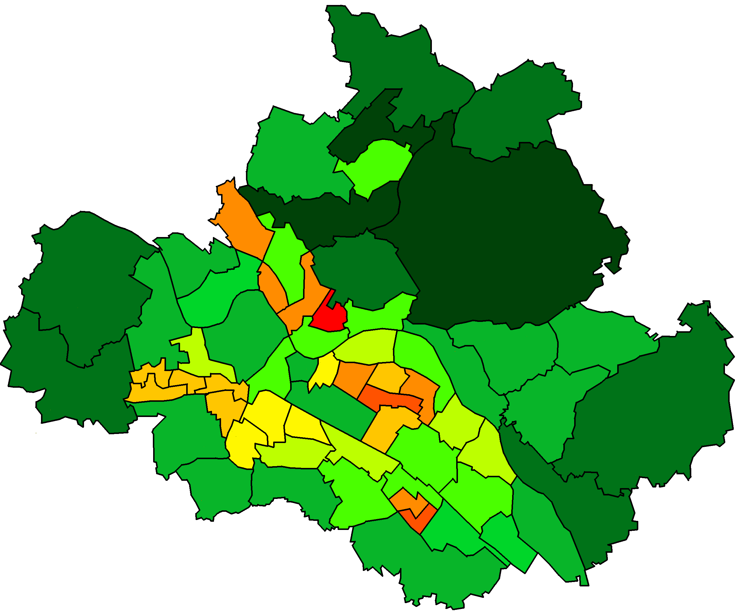 Population density of the Dresden city districts